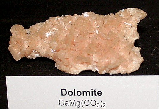 Source: Chris Ralph. This photo taken by Chris Ralph of [1], Photographer and author: photo taken by author.